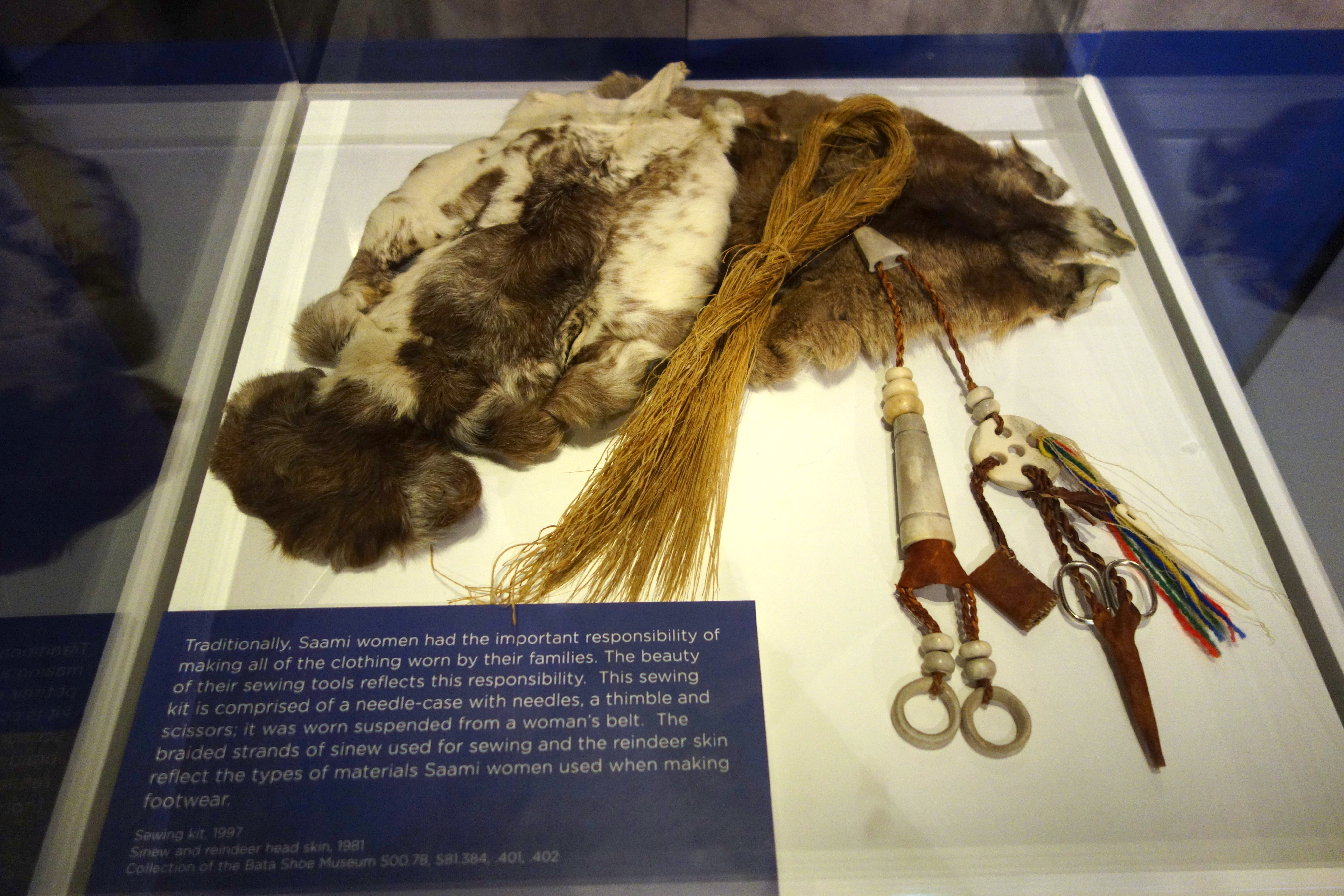 Exhibit in the Bata Shoe Museum, Toronto, Ontario, Canada. The museum permitted photography without restriction.